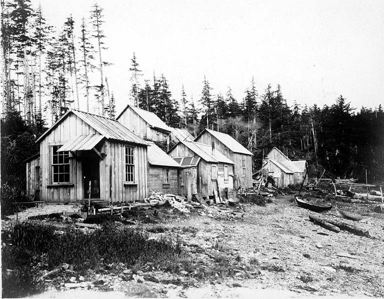 From John Cobb field notebook: Indian houses, Tee Harbor. June 25, 1907 Subjects (LCTGM): Houses--Alaska--Tee Harbor Subjects (LCSH): Dwellings--Alaska--Tee Harbor; Villages--Alaska--Tee Harbor; Tee Harbor (Alaska); Tlingit Indians--Structures